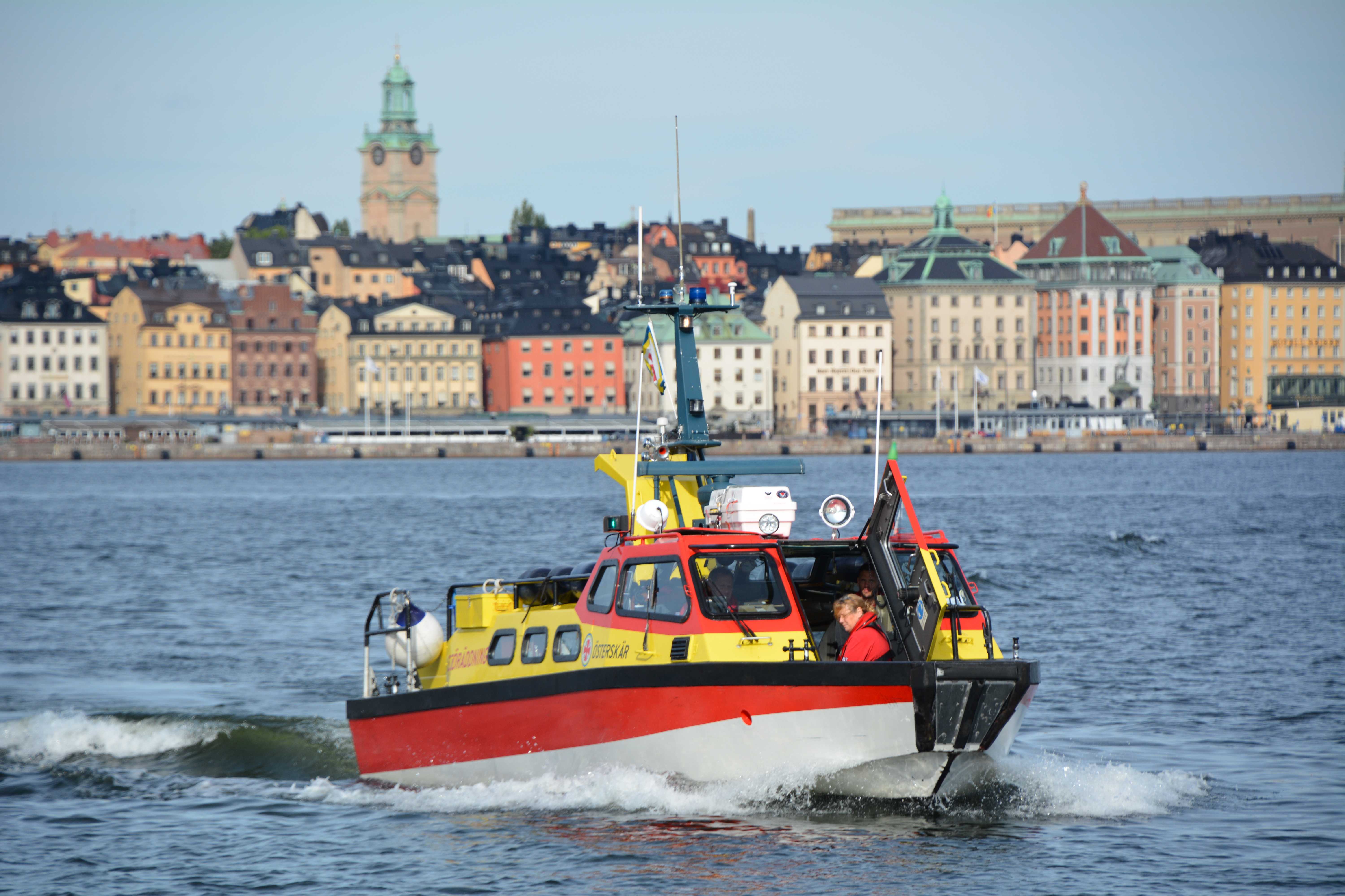 Rescue Österskär in front of Skeppsholmen